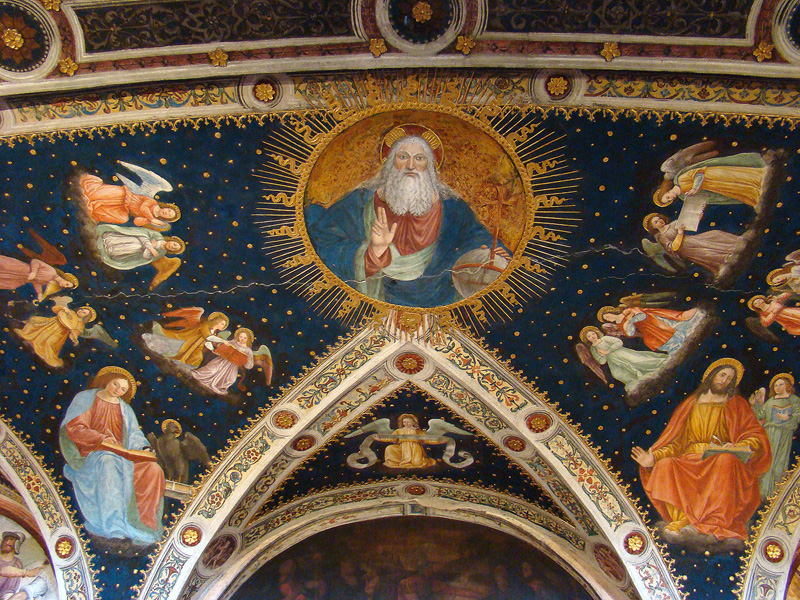 San Maurizio, Milan, Lombardy, Italy. Details of ceiling.